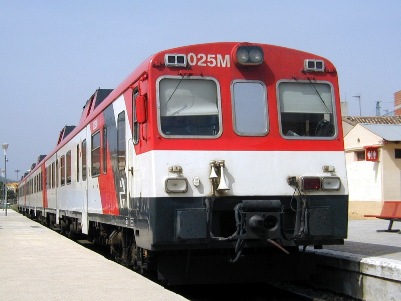 Renfe DMU 592.013 in Riba-Roja de Túria station, months before the closing of the line